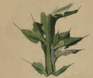 Stainton’s Natural History of the Tineina (1855–1873): Agonopterix subpropinquella a leaf of Cirsium vulgare gnawed beneath by larva